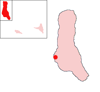 Iconi, Grande Comore, Comoros Location Map; created with the GIMP. Made by Acntx.